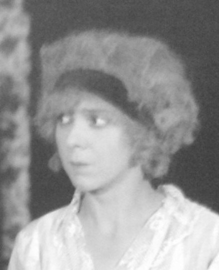 Nell Franzen on set at the Flying A Studios in Santa Barbara in 1916